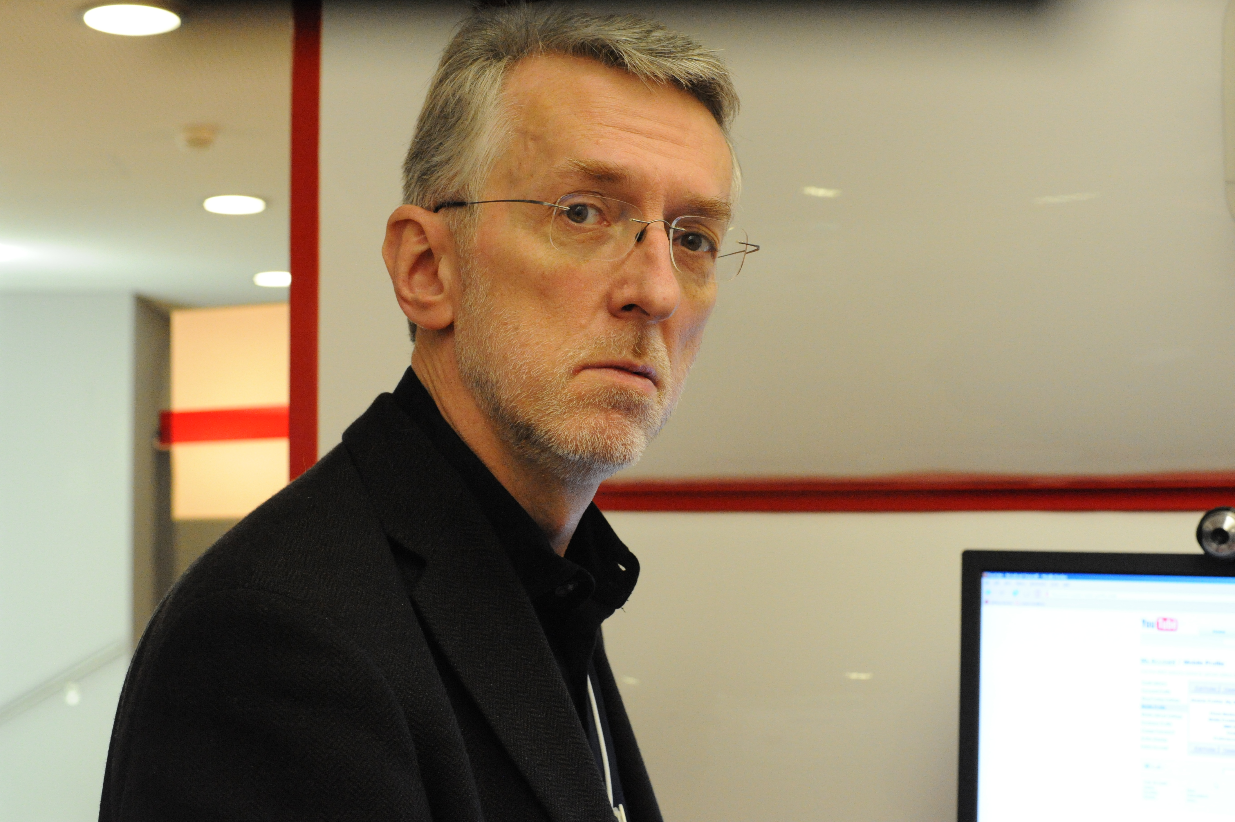 American journalist Jeff Jarvis at the 2008 World Economic Forum.Jeff Jarvis, famous blogger